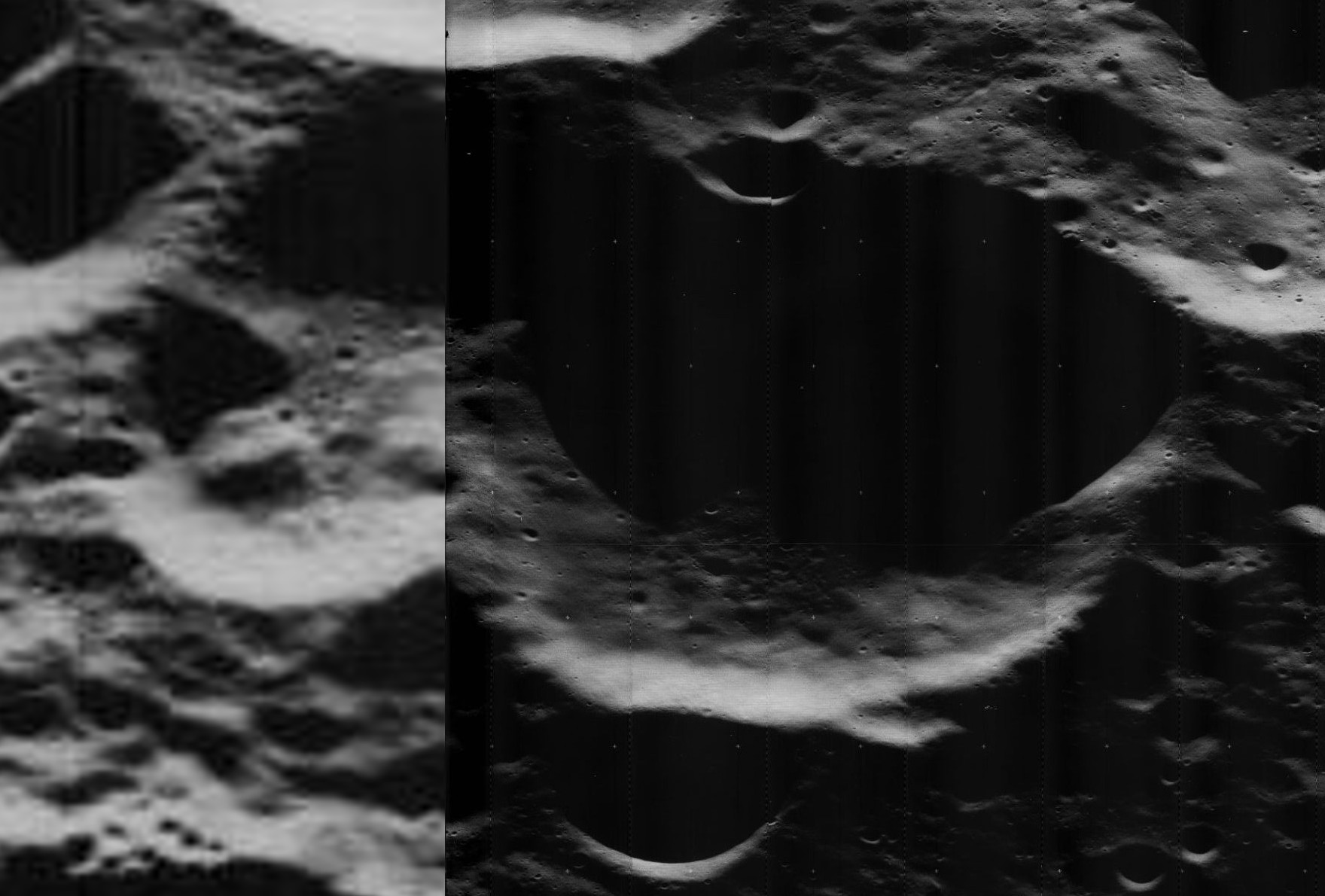 Oblique view of Ehrlich, on the far side of the moon, facing west.